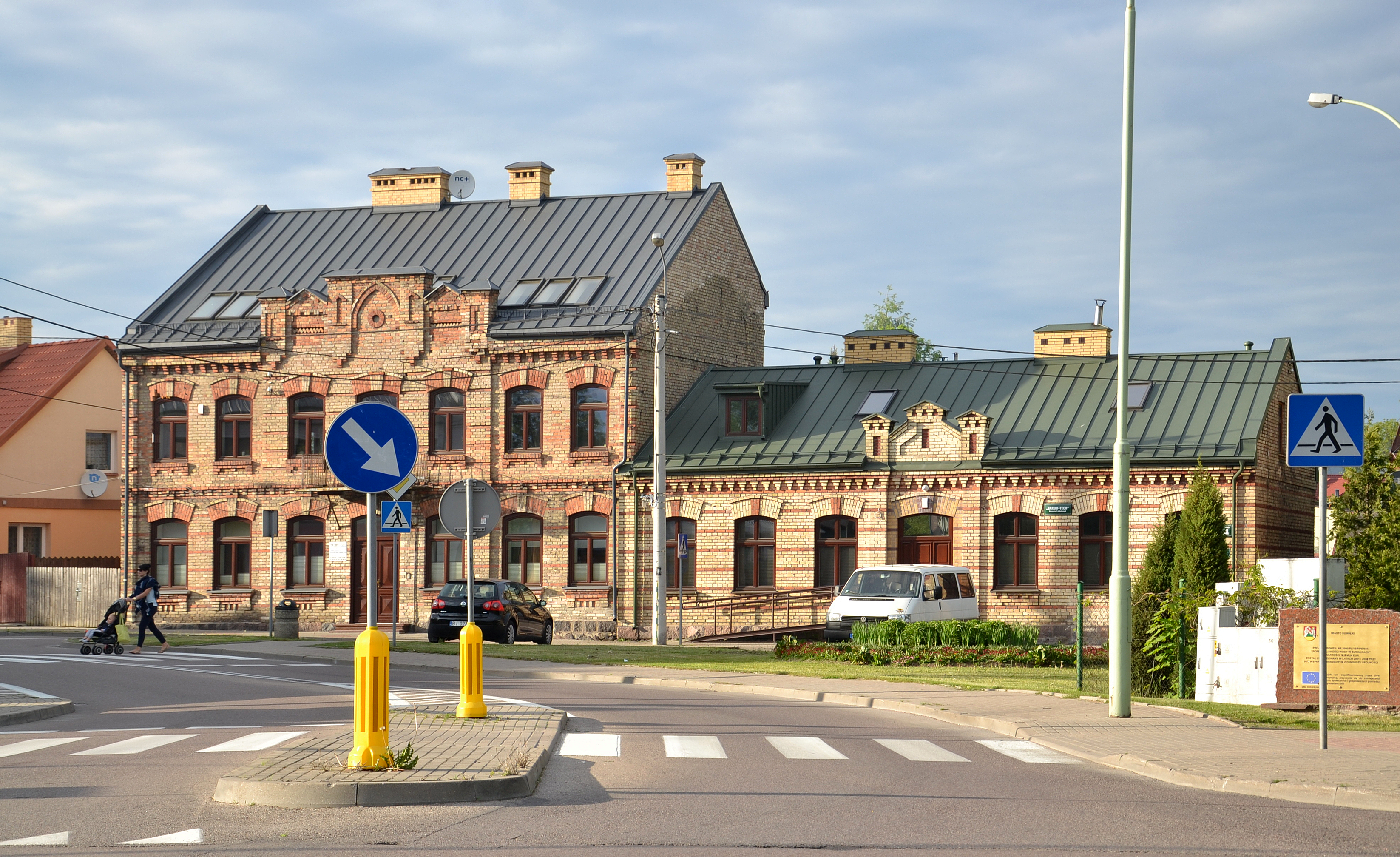 Suwałki, Poland - Mickiewicza street